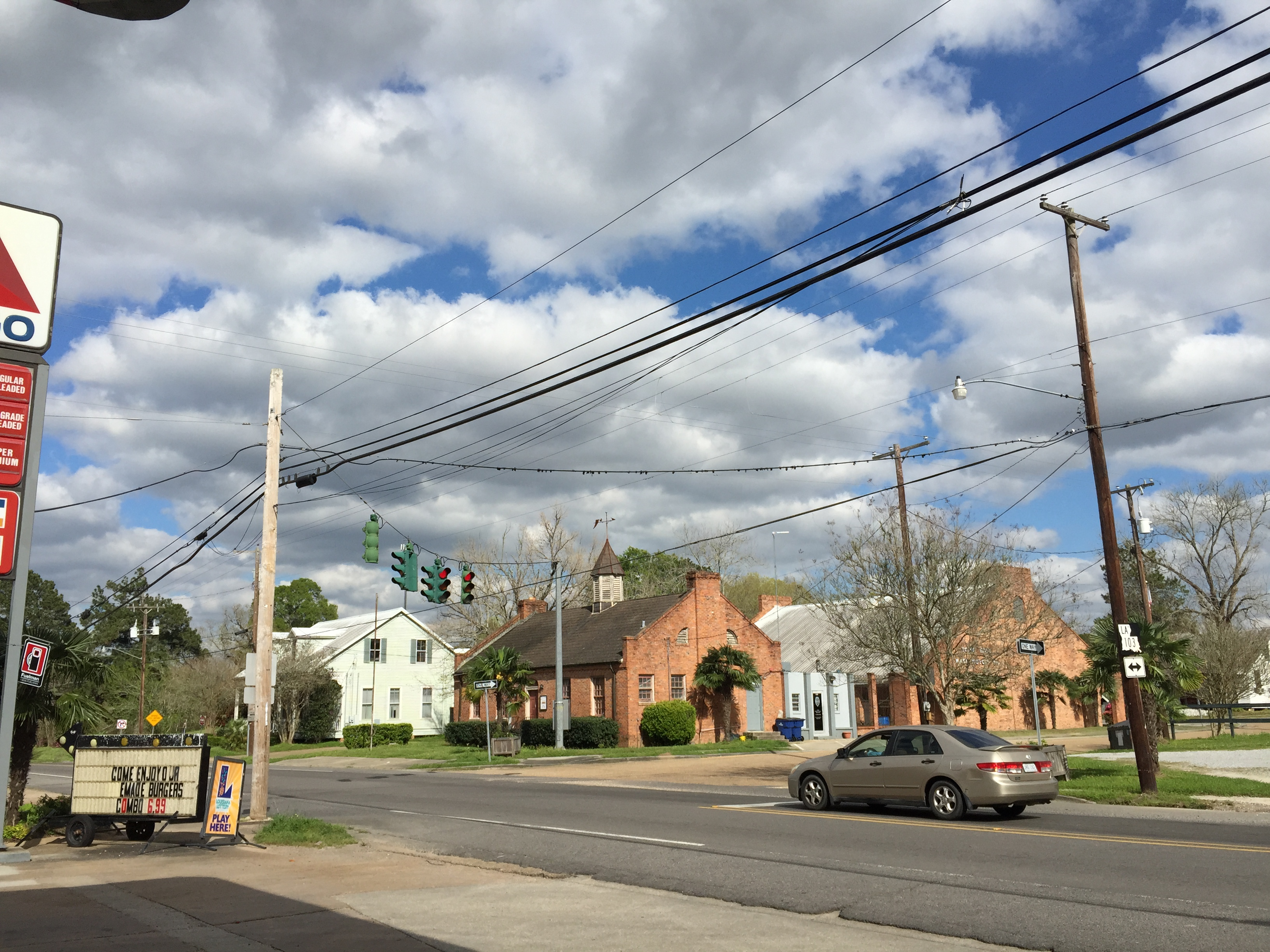 The intersection of De Jean Street (Louisiana State Route 103) and Main Street (Louisiana Route 182) in Washington, Louisiana